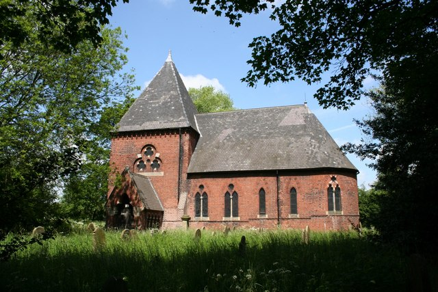 Former parish church of St John the Baptist, Burringham, Lincolnshire, seen from the south